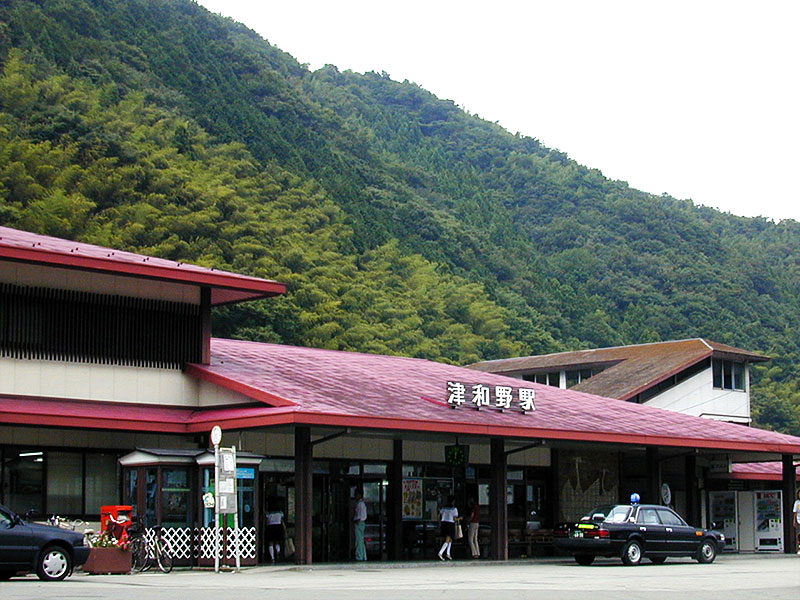 JR-west Tsuwano station